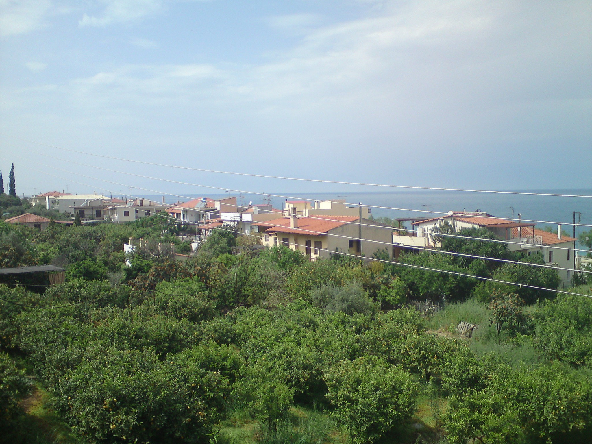 View of Derveni village in Korinthia prefecture, Greece